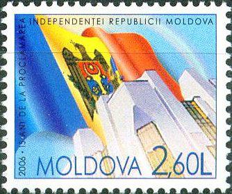 Stamp of Moldova